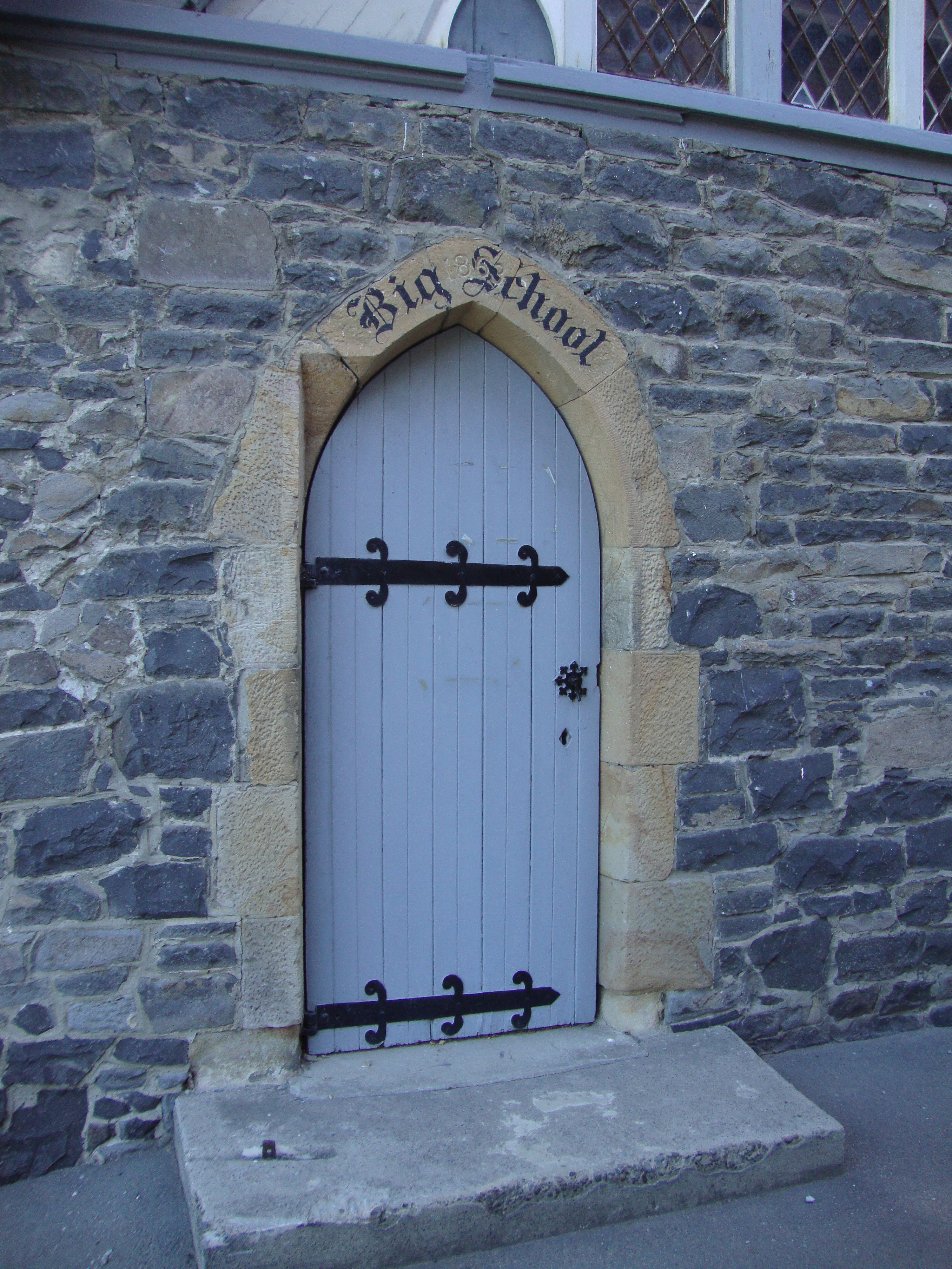 Side entrance to Big School.